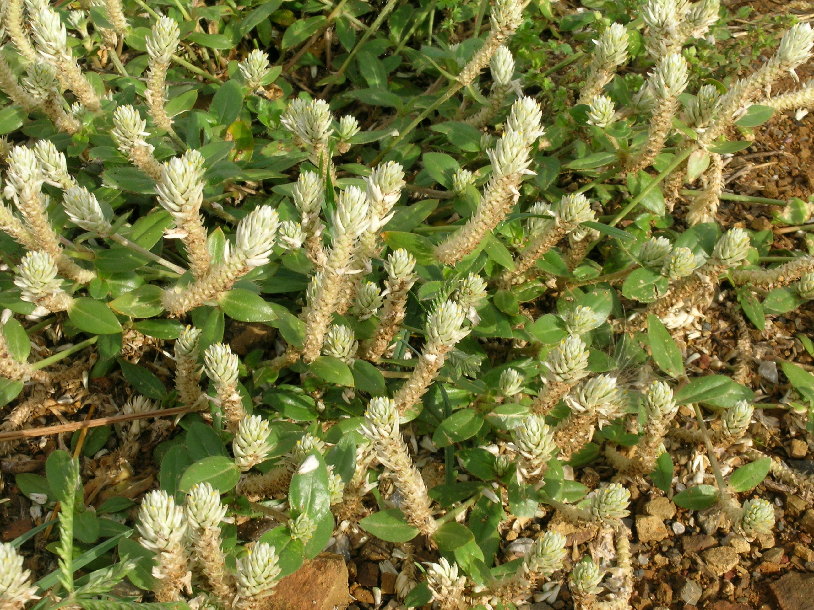 Introduced, warm-season, annual or perennial, prostrate to ascending herb. Stems are pubescent to woolly or hairless and to 25 cm tall. Leaves are opposite, oblong to more or less spathulate and 2–5 cm long; upper surface is sparsely hairy to hairless, lower surface is pubescent to woolly. Flowerheads are 1–4 cm long, 1–1.2 cm wide. Perianth segments are white, shining and papery. A native of America, it is a widespread weed.